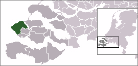 Location of Veere